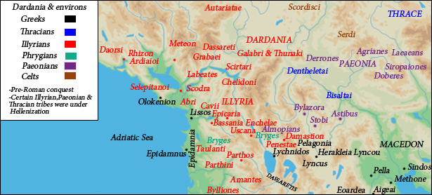 Map of Dardania & Environs prior to Roman conquest